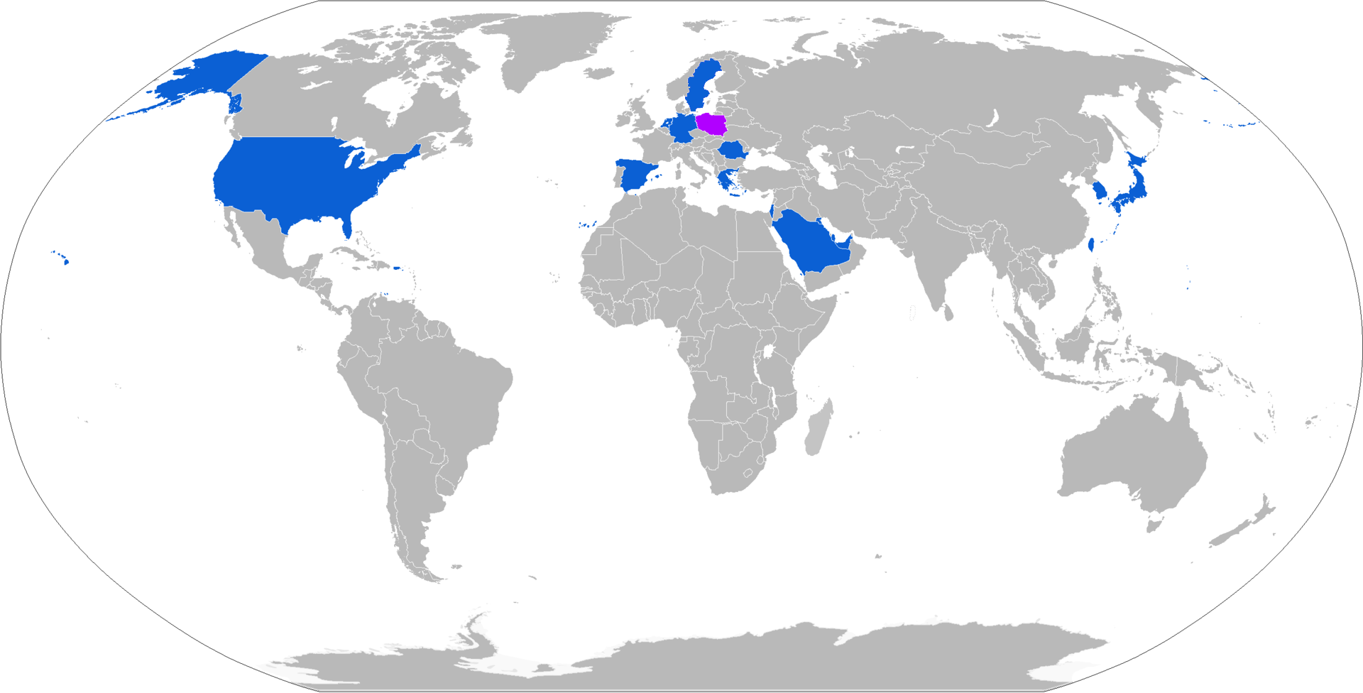 Map with MIM-104 operators in blue and potential operators in purple